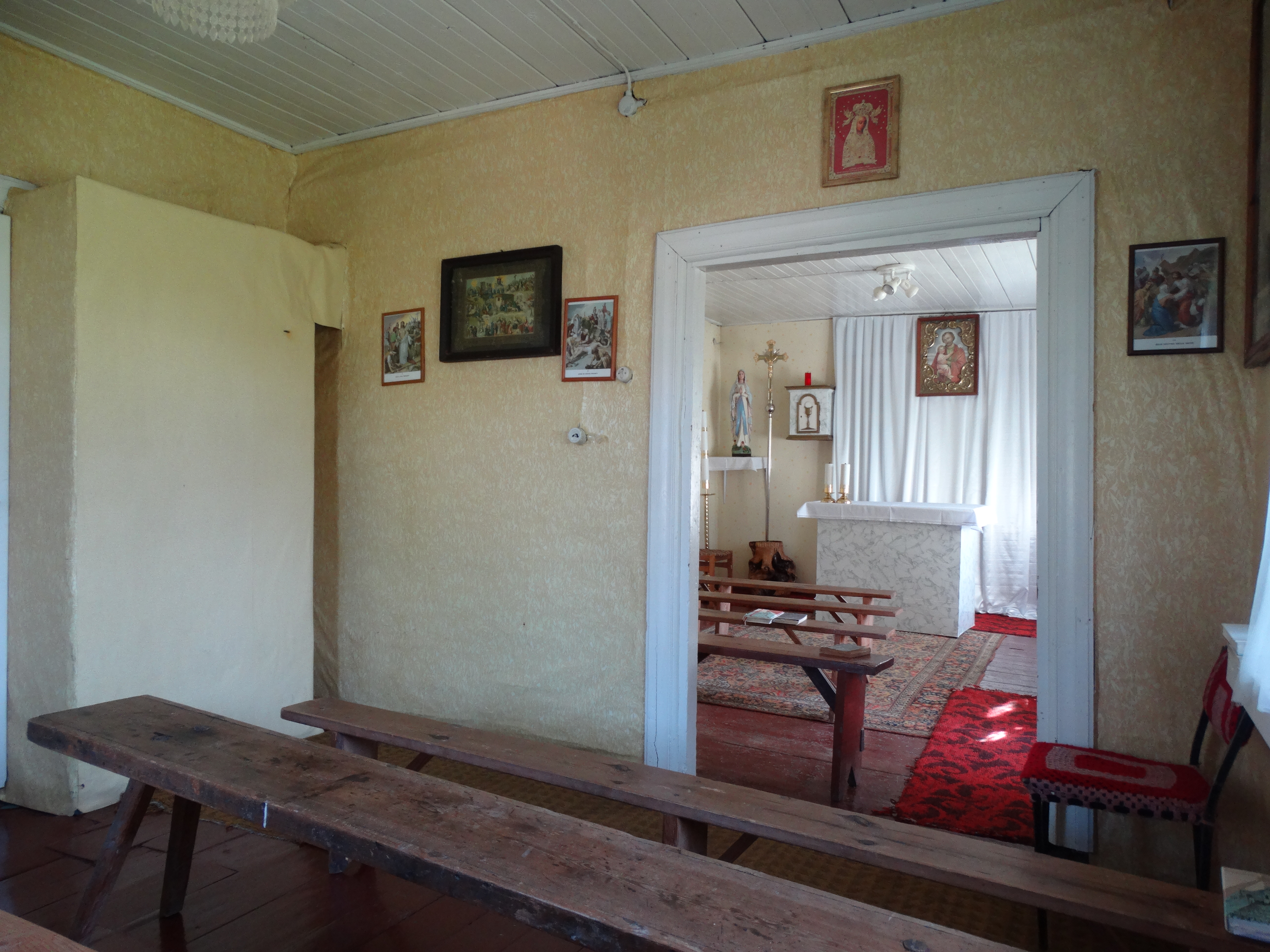 Chapel, Skirlėnai, Vilnius District, Lithuania